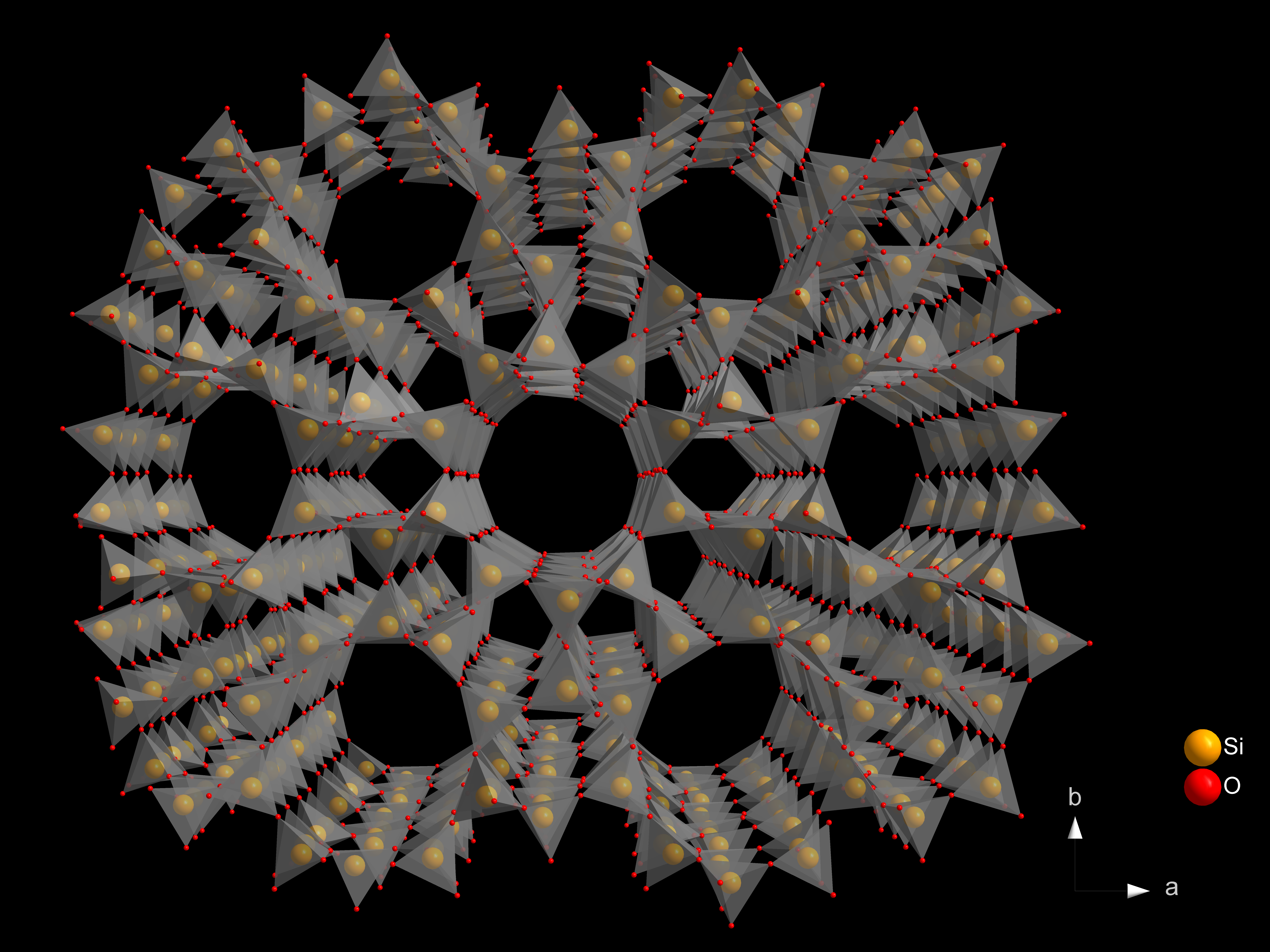 The molecular structure of ZSM-5 zeolite, showing well defined pores and channels in the zeolite. Yellow balls represent Si and red balls represent O.